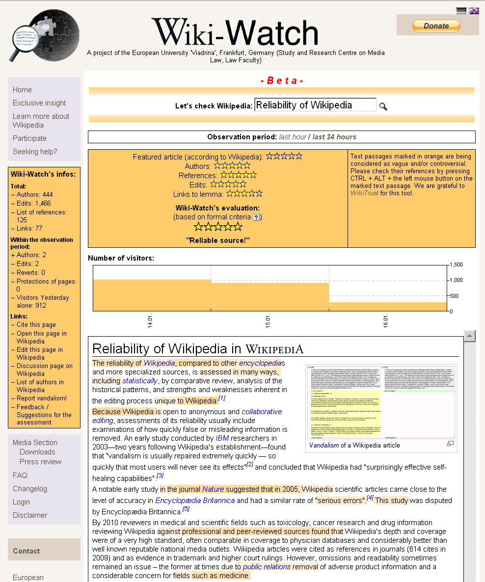 Screenshot of Wiki-Watch rating of the Wikipedia article Reliability of Wikipedia with orange marks of untrustworthy text by WikiTrust